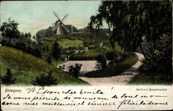 Postcard published by Ottmar Zieher (1857-1924). Photographer unknown. With handwritten date 11/8. 09. = 11 August 1909 and the following message: "Mon cher Emile! Je vous présente de nouveau de tout mon coeur mes meilleures et sincéres félicitations." On reverse side addressed to Monsieur Emile Delbourg, Bordeaux.